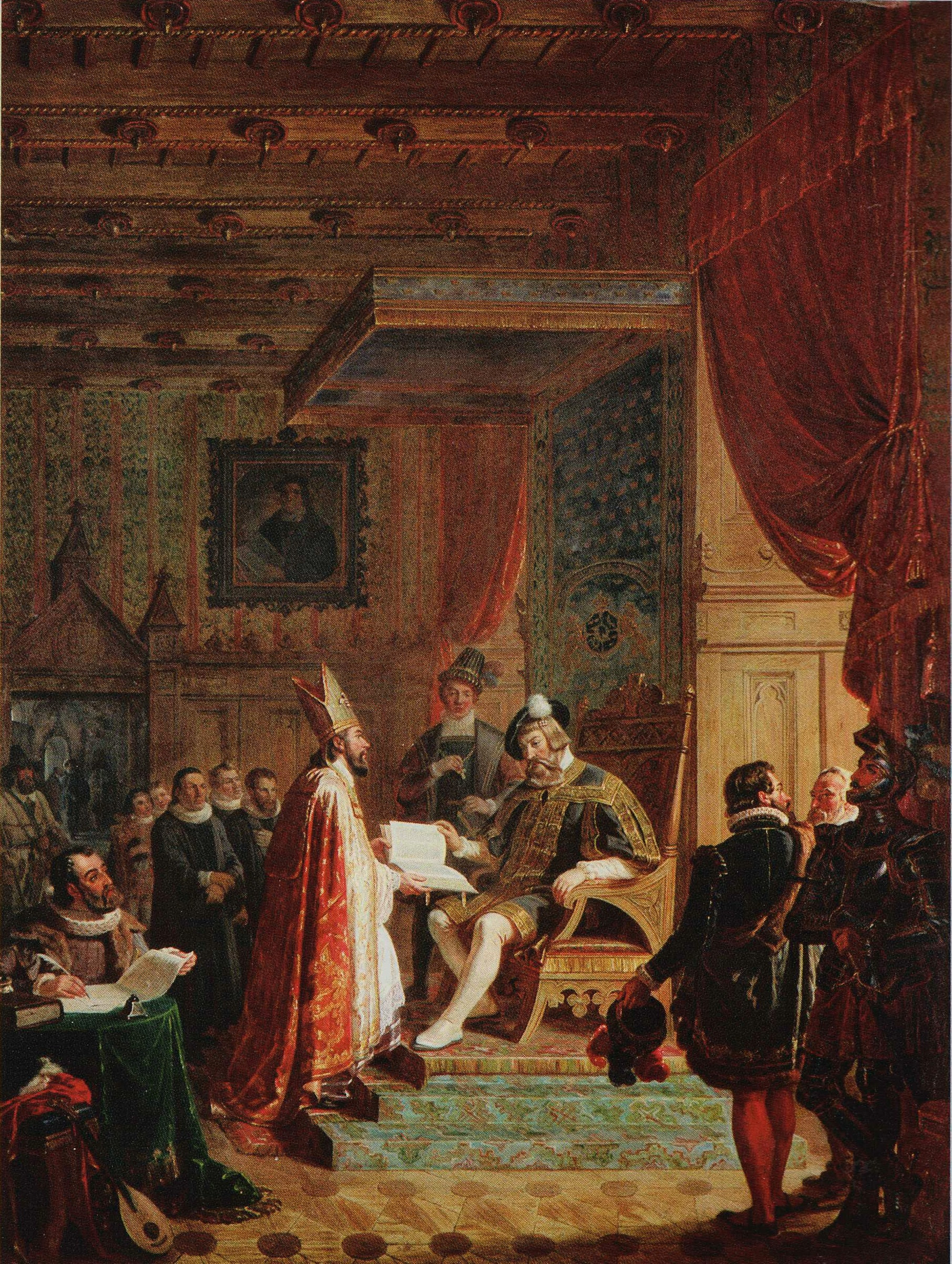 Sketch for the fresco made for the Turku cathedral